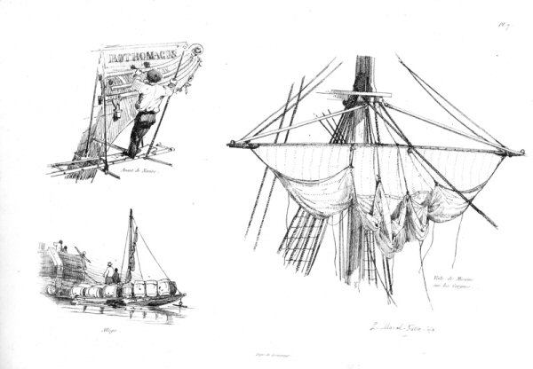 Bow of a Ship - Lighter - Foresail on Brails